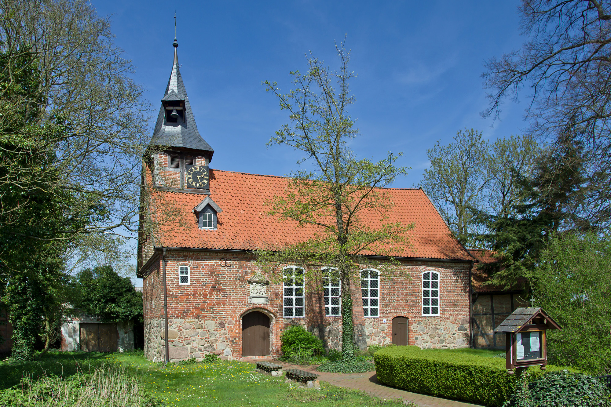 Chapel in the small village "Breese im Bruche", Wendland, Germany.